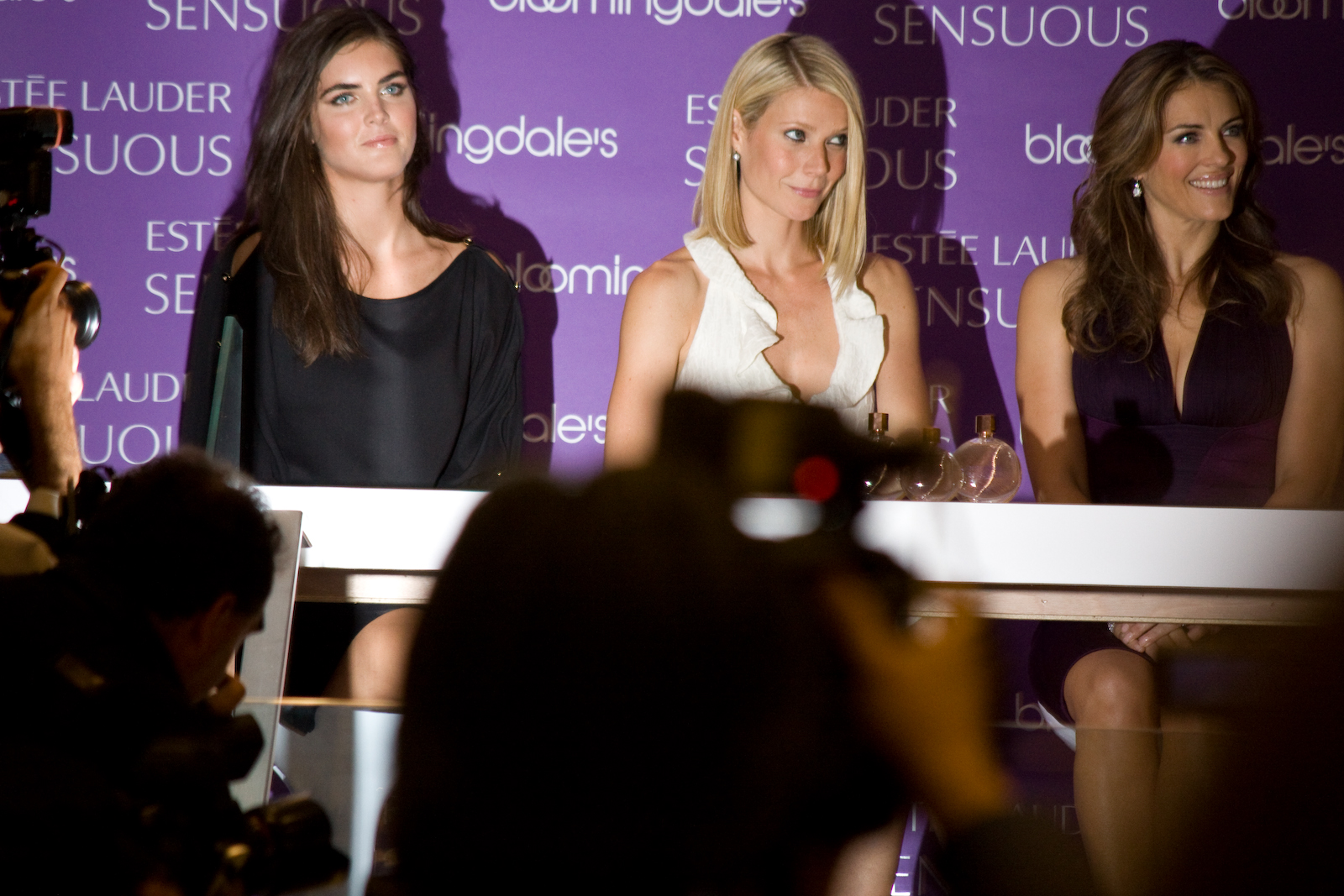 Estee Lauder spokesmodels at the launch of new fragrance, Sensuous, in July 2008.